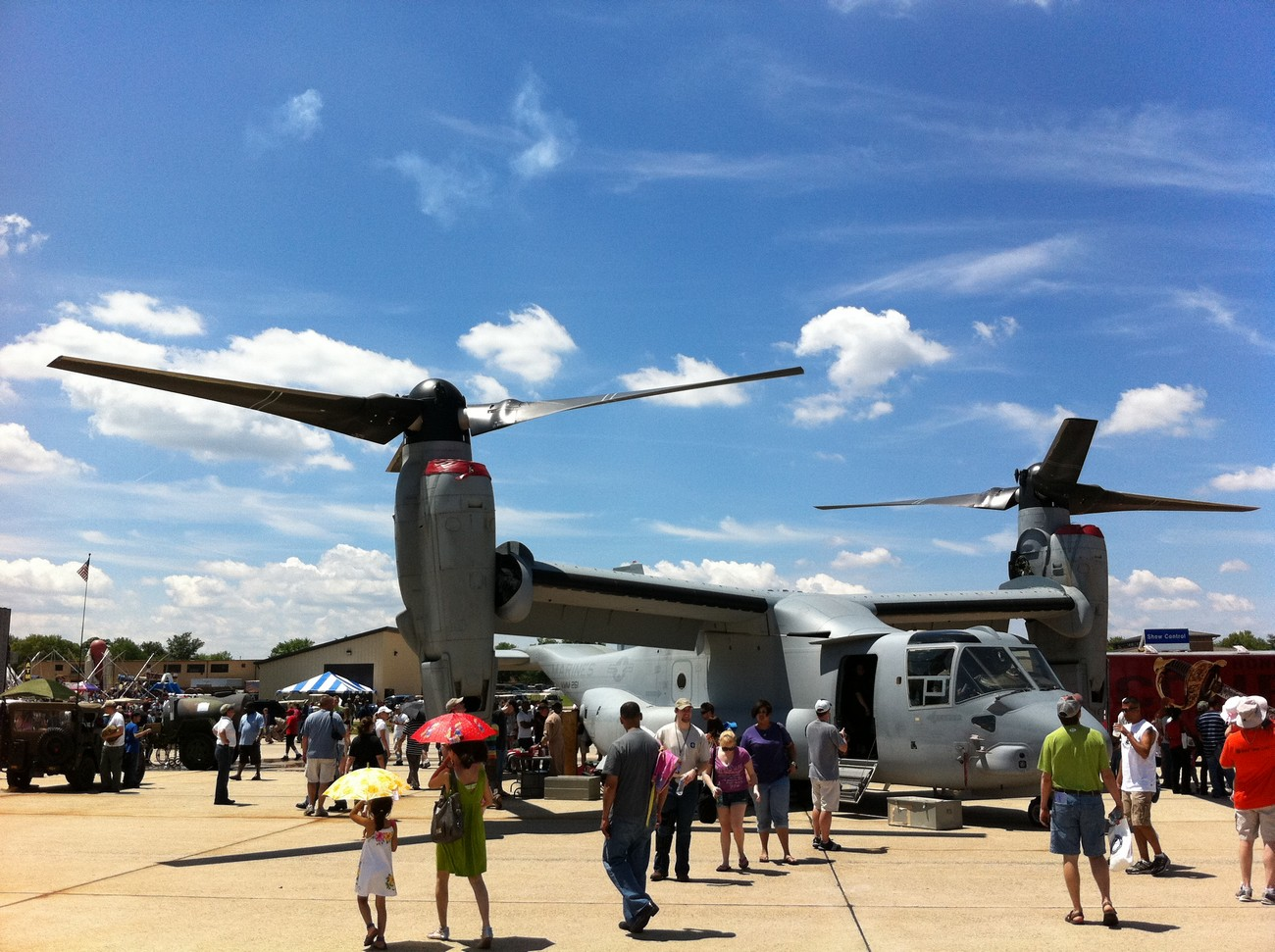 A MV-22 Osprey convertible helicopter exposed at Andrews Air show 2011 (Joint Open Service House).